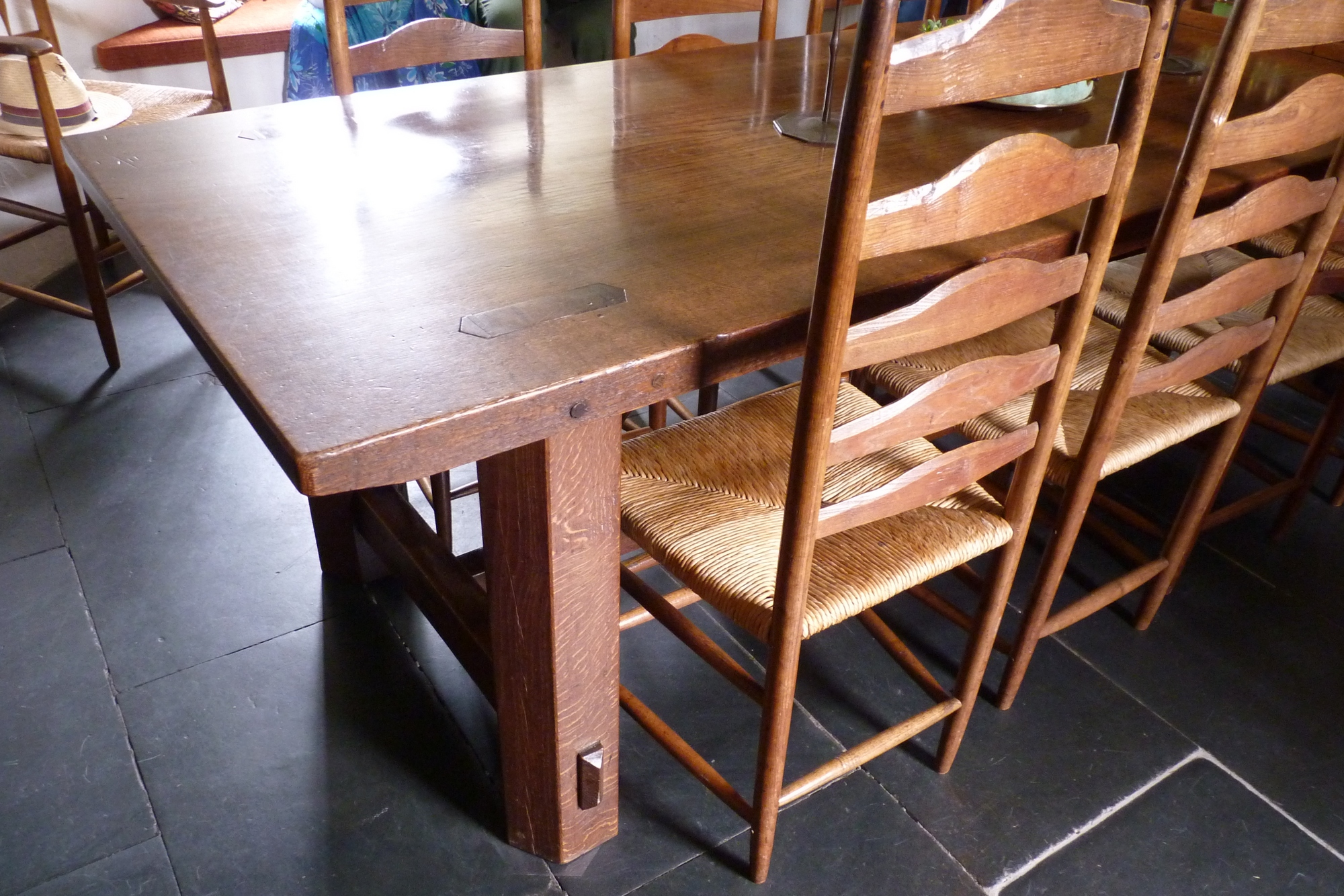 Earnest Gimson's Arts and Craft House (1899) in Charnwood Forest, now a National Trust property.